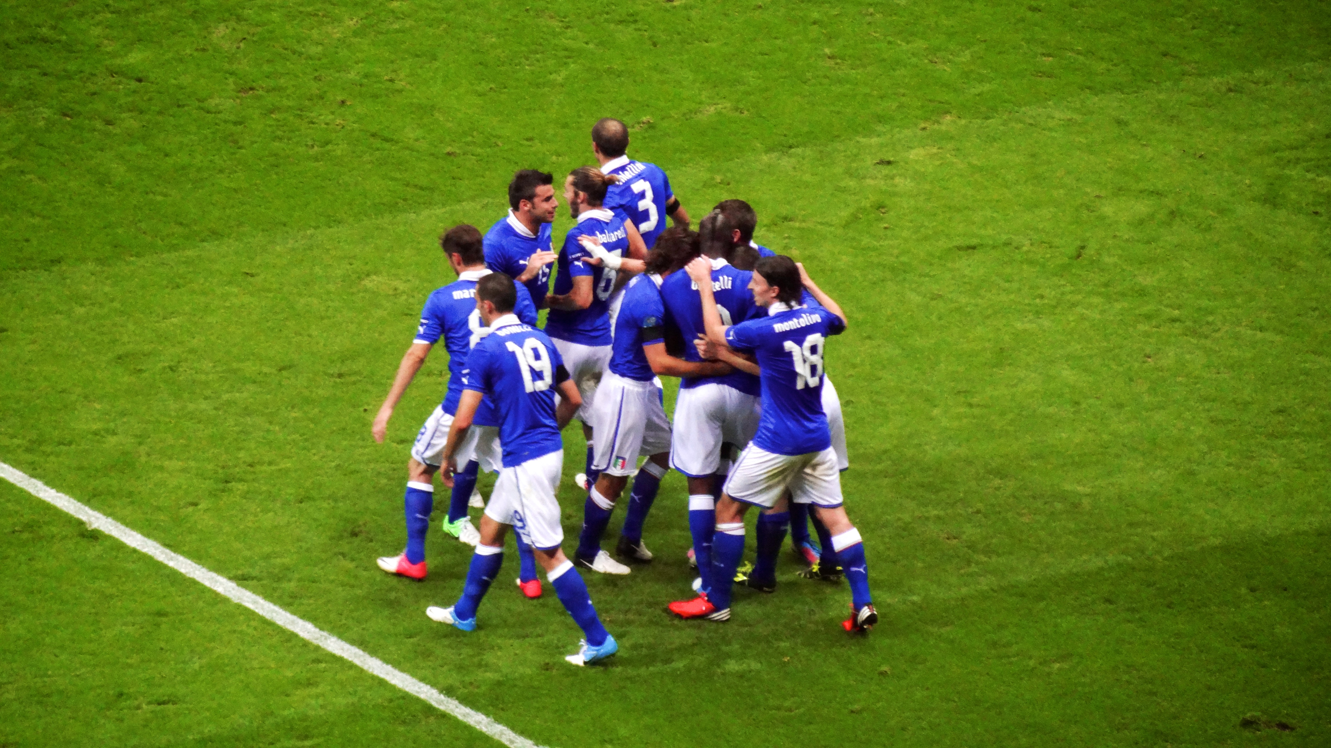 Italian team congratulating Mario Balotelli after his 1st goal, UEFA Euro 2012.